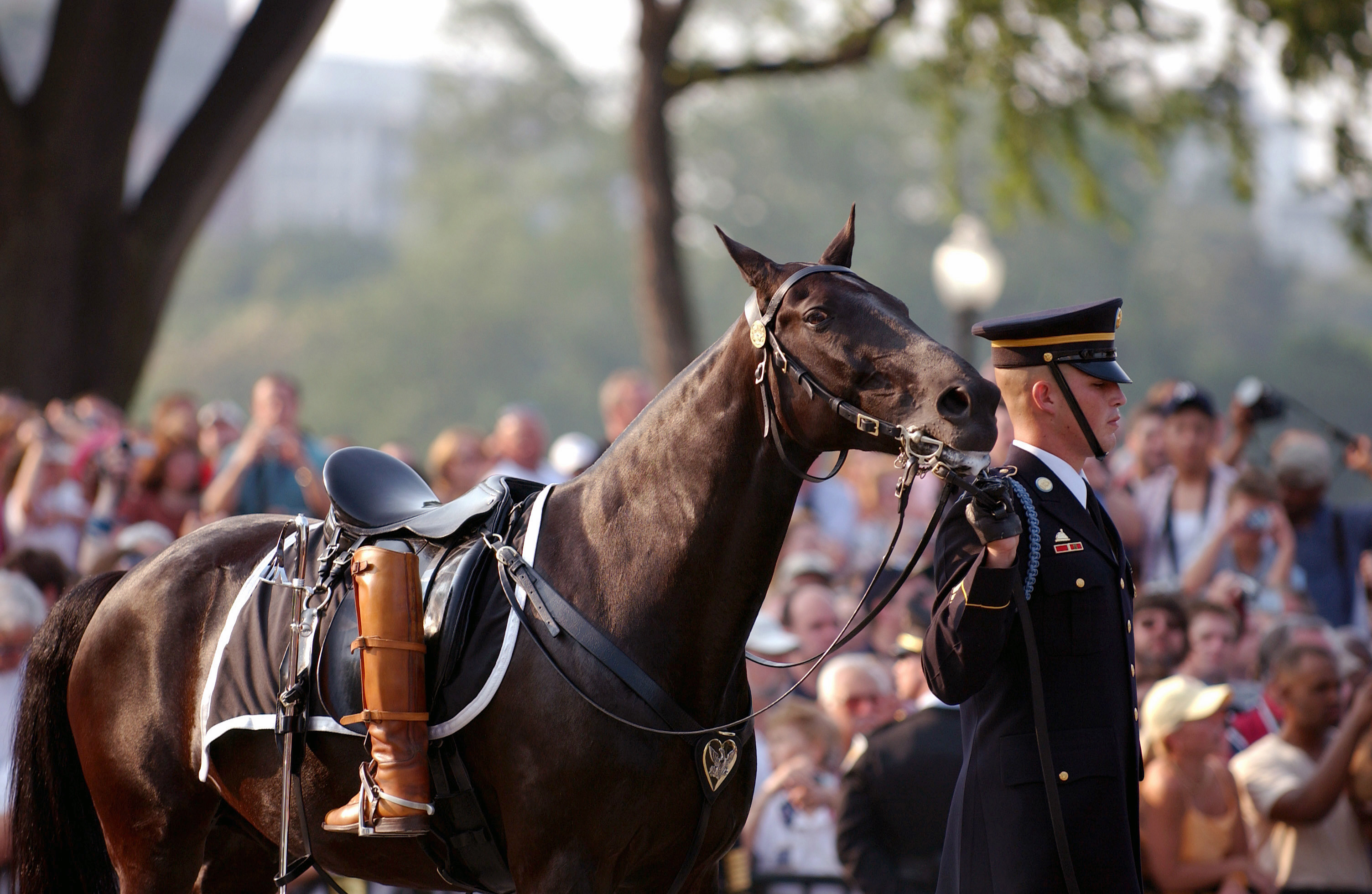 Sergeant Jared Keyworth with the US Army (USA) 3rd US Infantry Regiment Old Guard guides a riderless horse down Constitution Avenue during the funeral procession for the 40th President of the United States Ronald Wilson Reagan in Washington DC. President Reagan gave the boots on the horse to the Old Guard before he left office. Photographer's Name: SSGT SHANE CUOMO, USAF Location: WASHINGTON DC Date Shot: 6/9/2004 Date Posted: unknown VIRIN: 040609-F-2034C-008